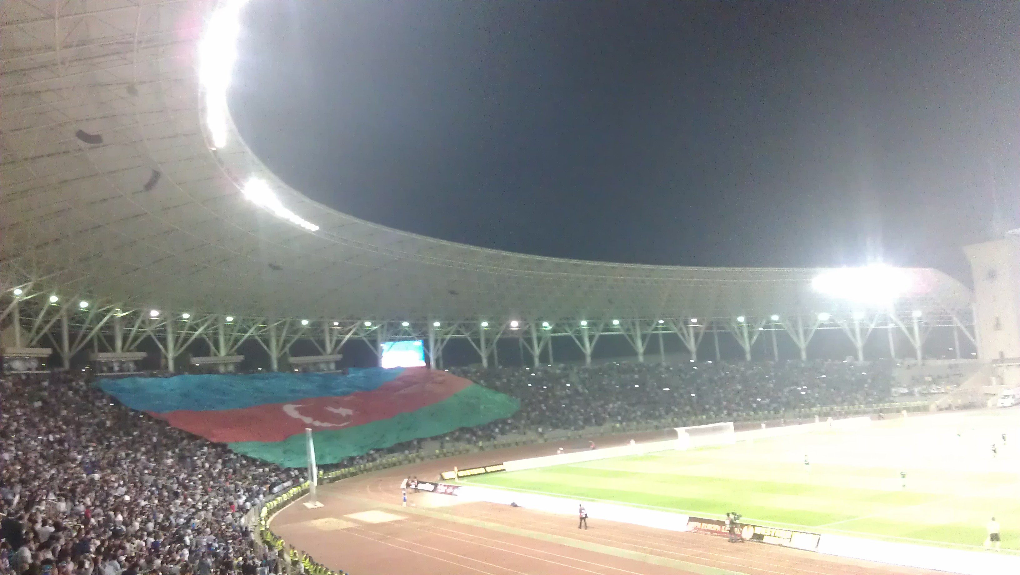 Big flag of Azerbaijan, Qarabağ Ağdam (Azerbaijan) - Saint Etienne (France), 18.09.2014, UEFA Europa League, Tofiq Bahramov Republic Stadium